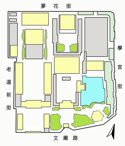 Map of the Shanghai Confucian Temple